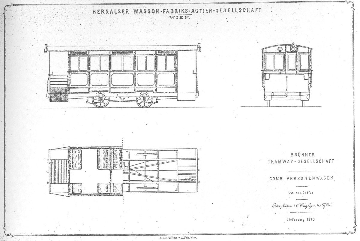 Design drawing of horse tram for Brno, Moravia (now Czech Republic)